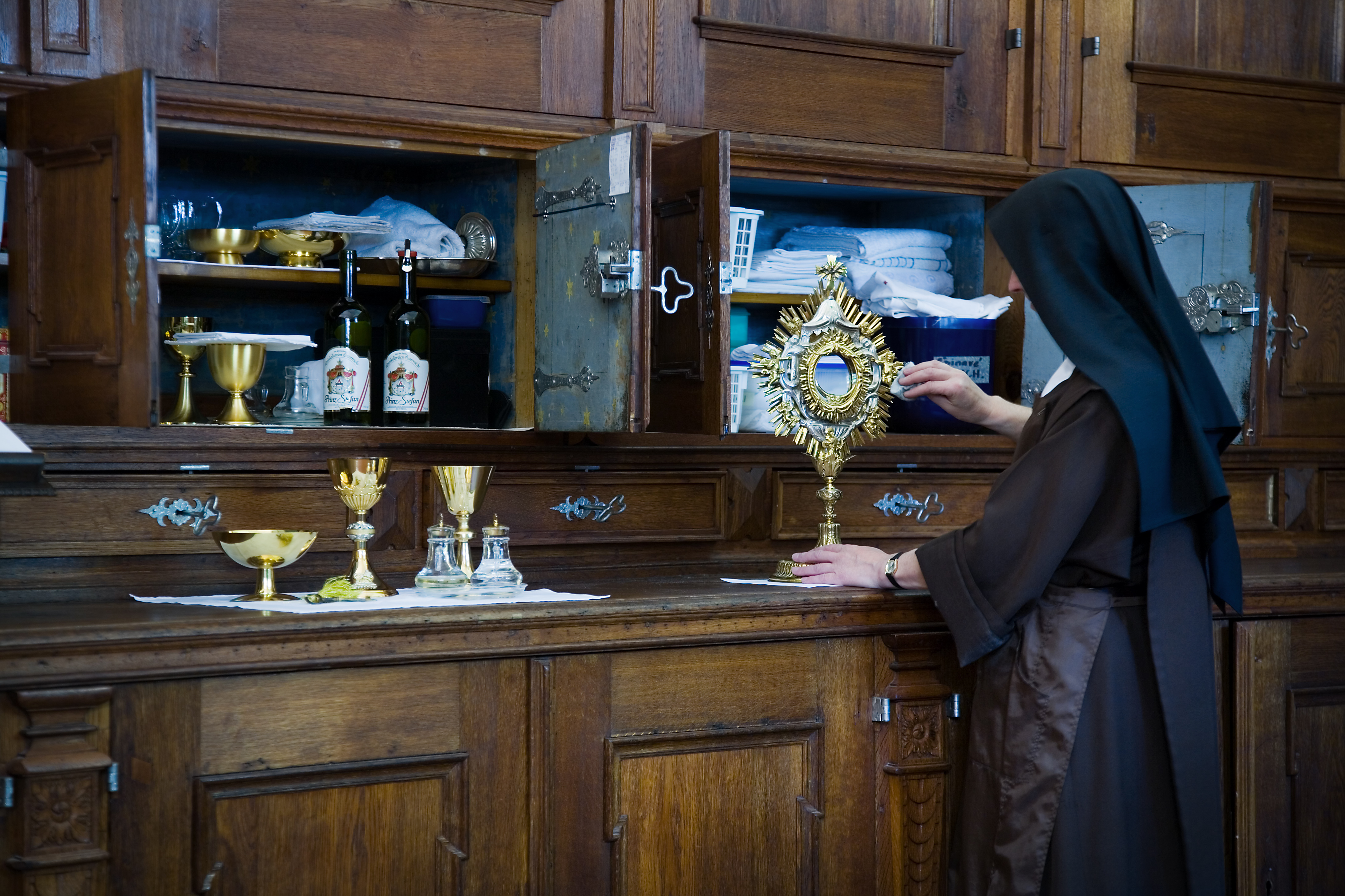 Ostensory or Monstrance and catholic mass paraphernalia